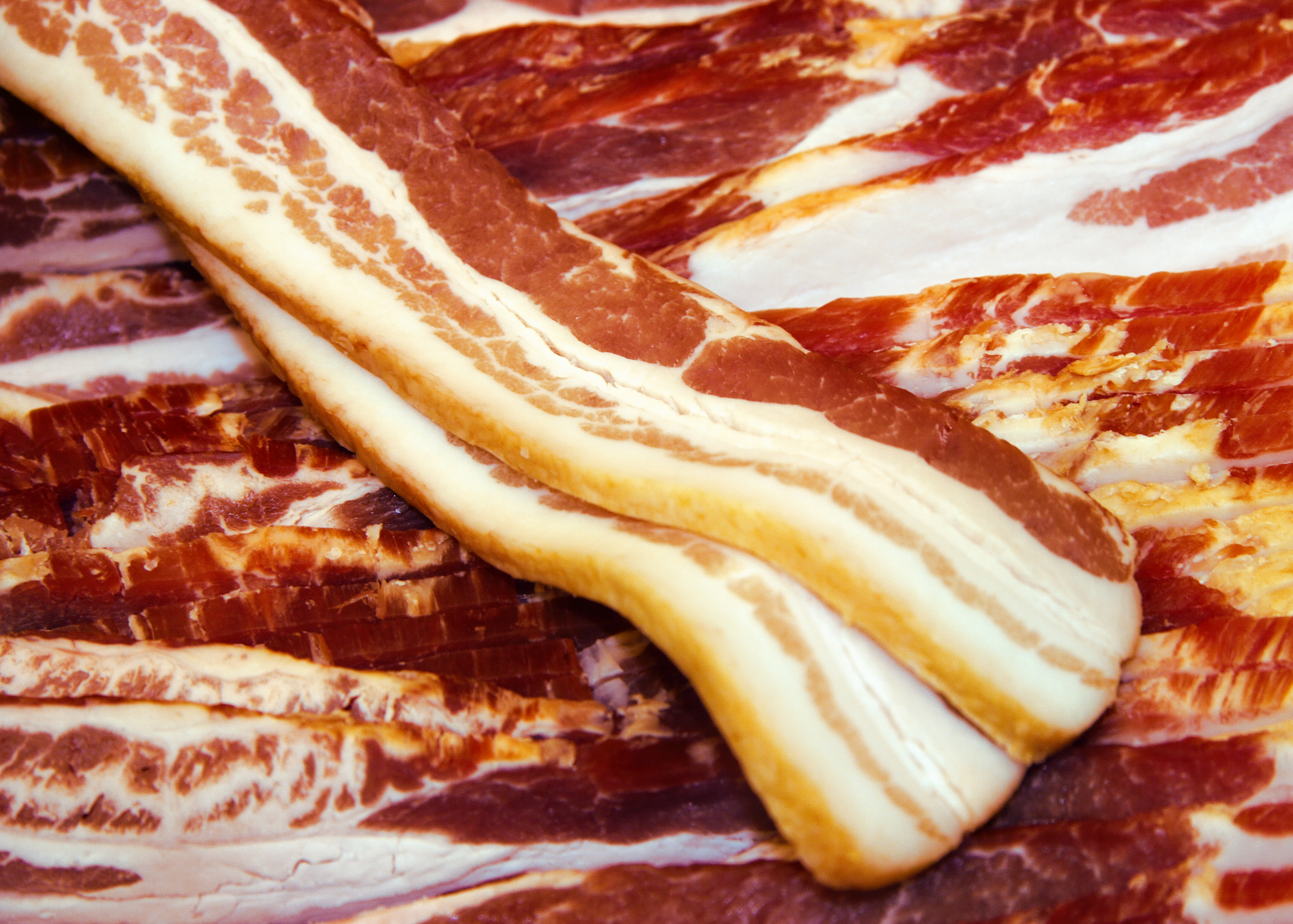 Uncooked pork belly bacon strips displayed behind glass in Gorman's Butcher Shop in Pine Island, Minnesota